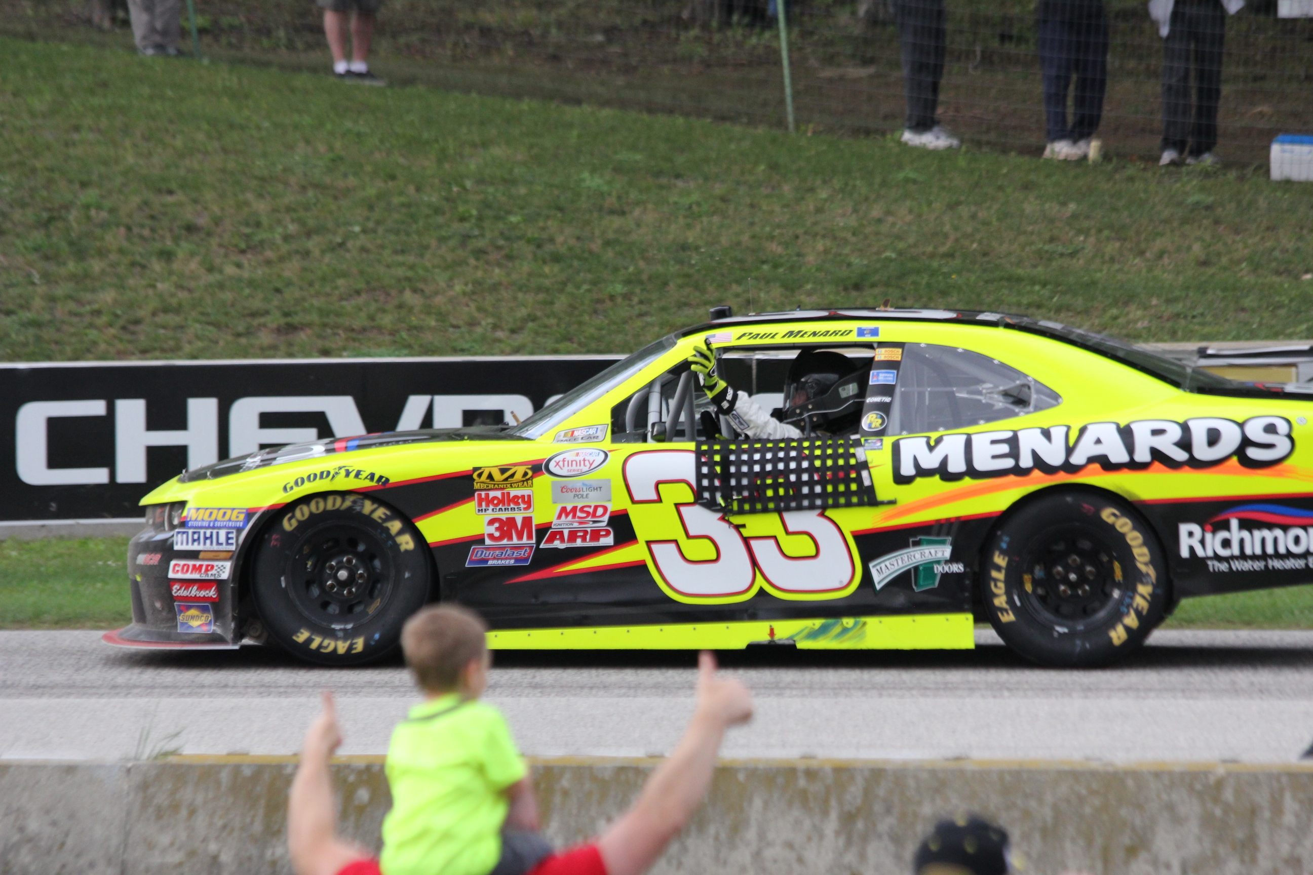 Fans waving to NASCAR Xfinity Series driver Paul Menard after winning in his home state at Road America.